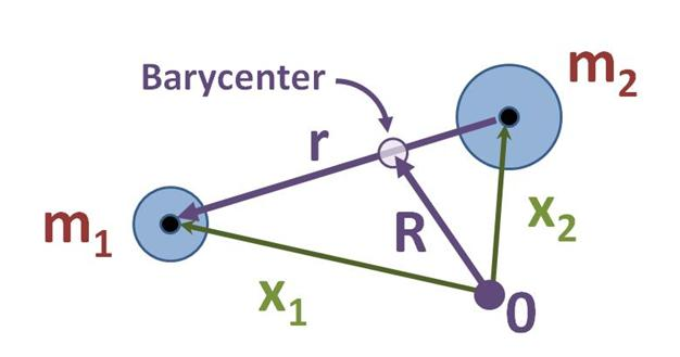 Two-body Jacobi coordinates